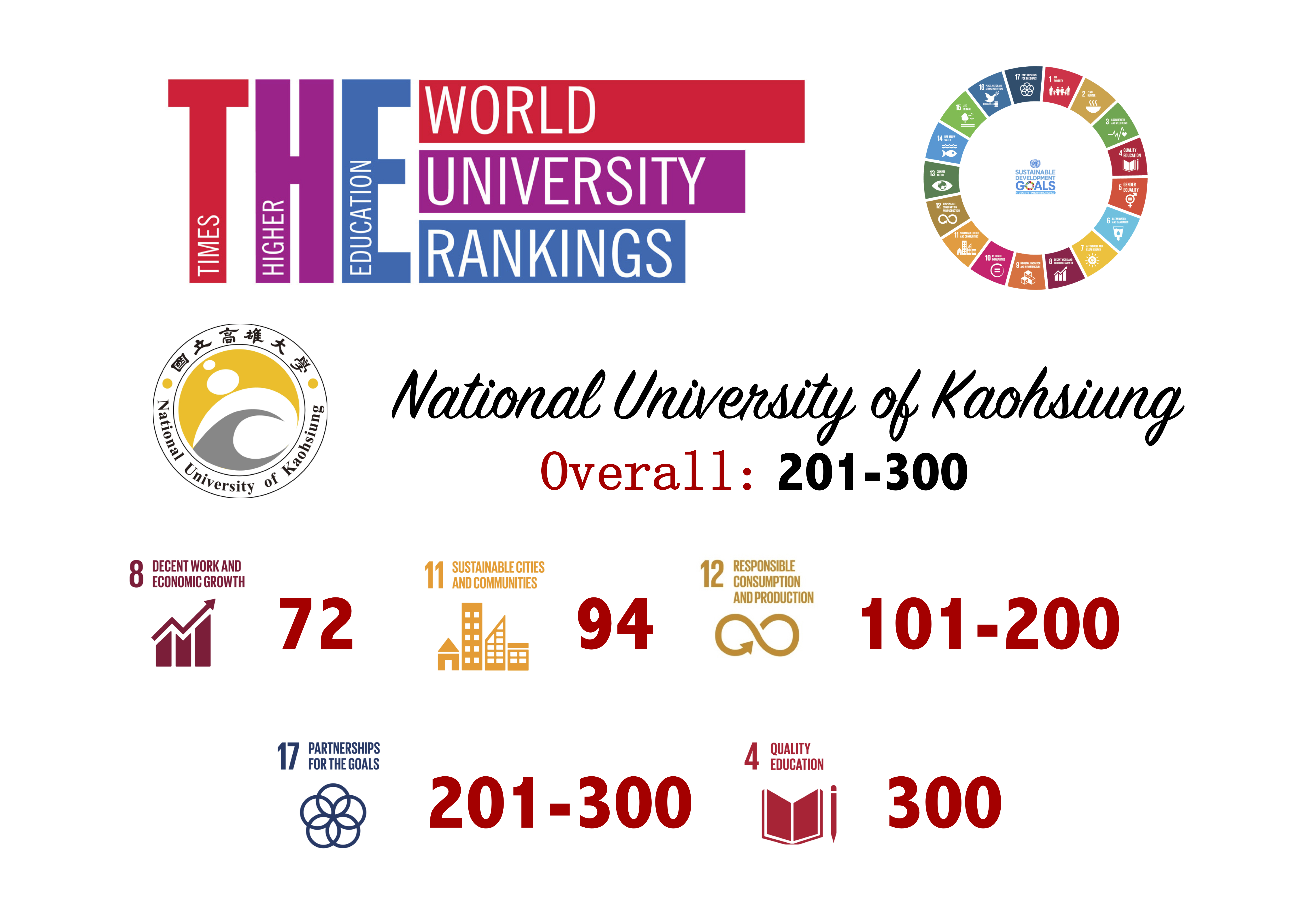 Academic Ranking 2019